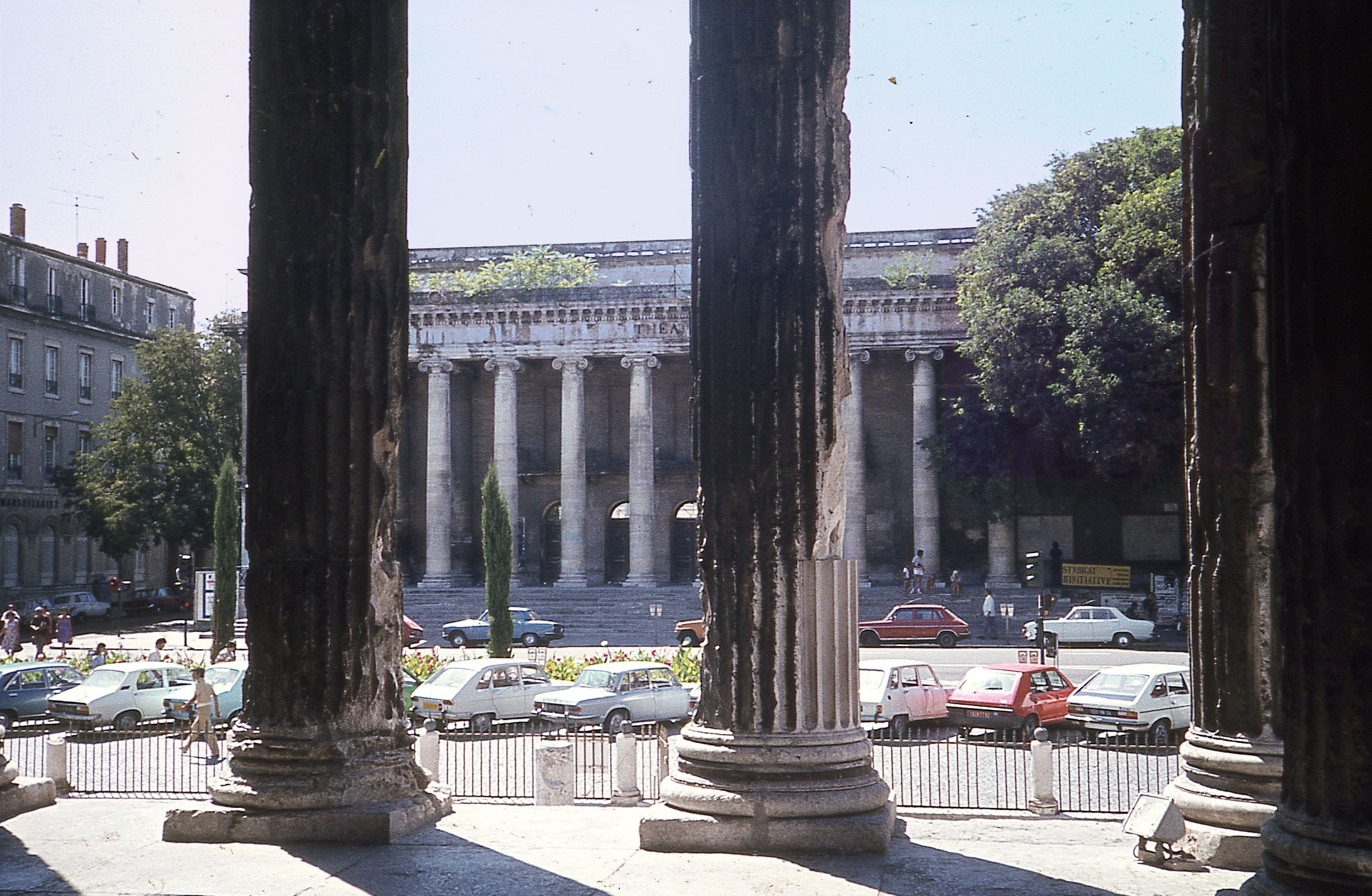 Nîmes: the facade of the ruined theatre as seen from Maison carrée